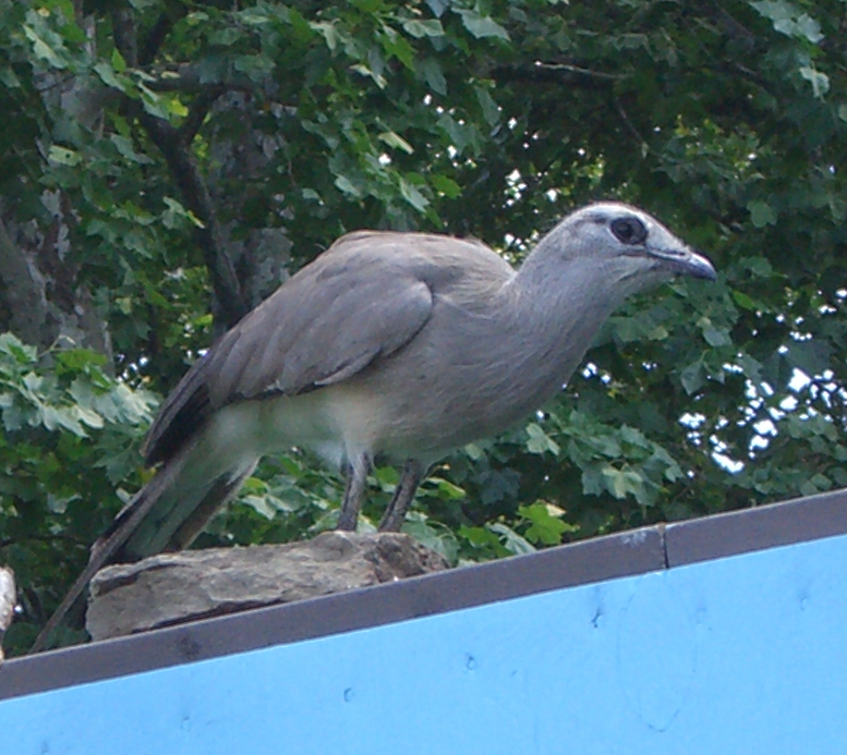 Black-legged Seriema, taken at National Aviary in Pittsburgh